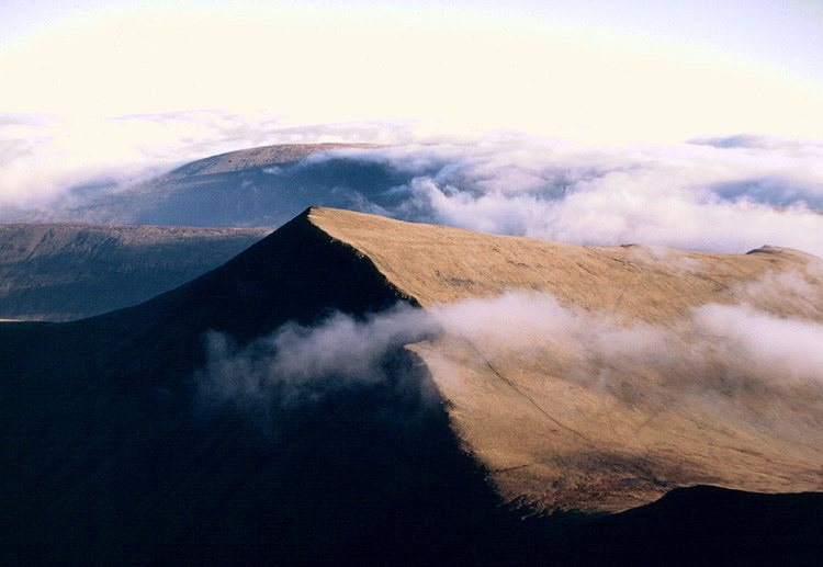 Part of the Brecon Beacons National Park, looking from the highest point Pen Y Fan (2907 feet, 886 metres) to Cribyn (2608 feet, 795 metres). Taken by Adrian Pingstone and released to the public domain. Image cleaned by User:Naturenet 11:20, 8 Nov 2004 (UTC)